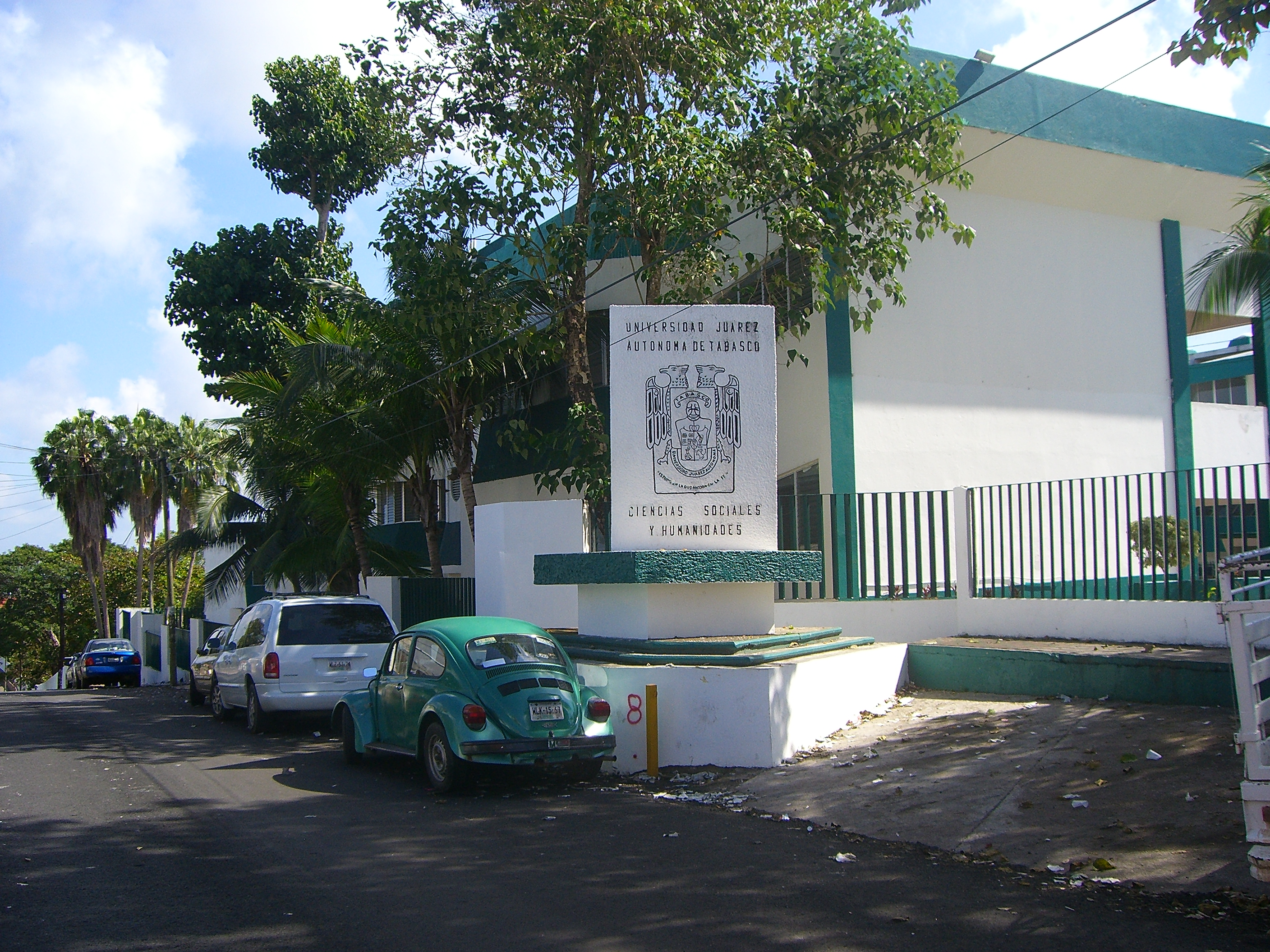 Universidad Juarez Autonoma de Tabasco